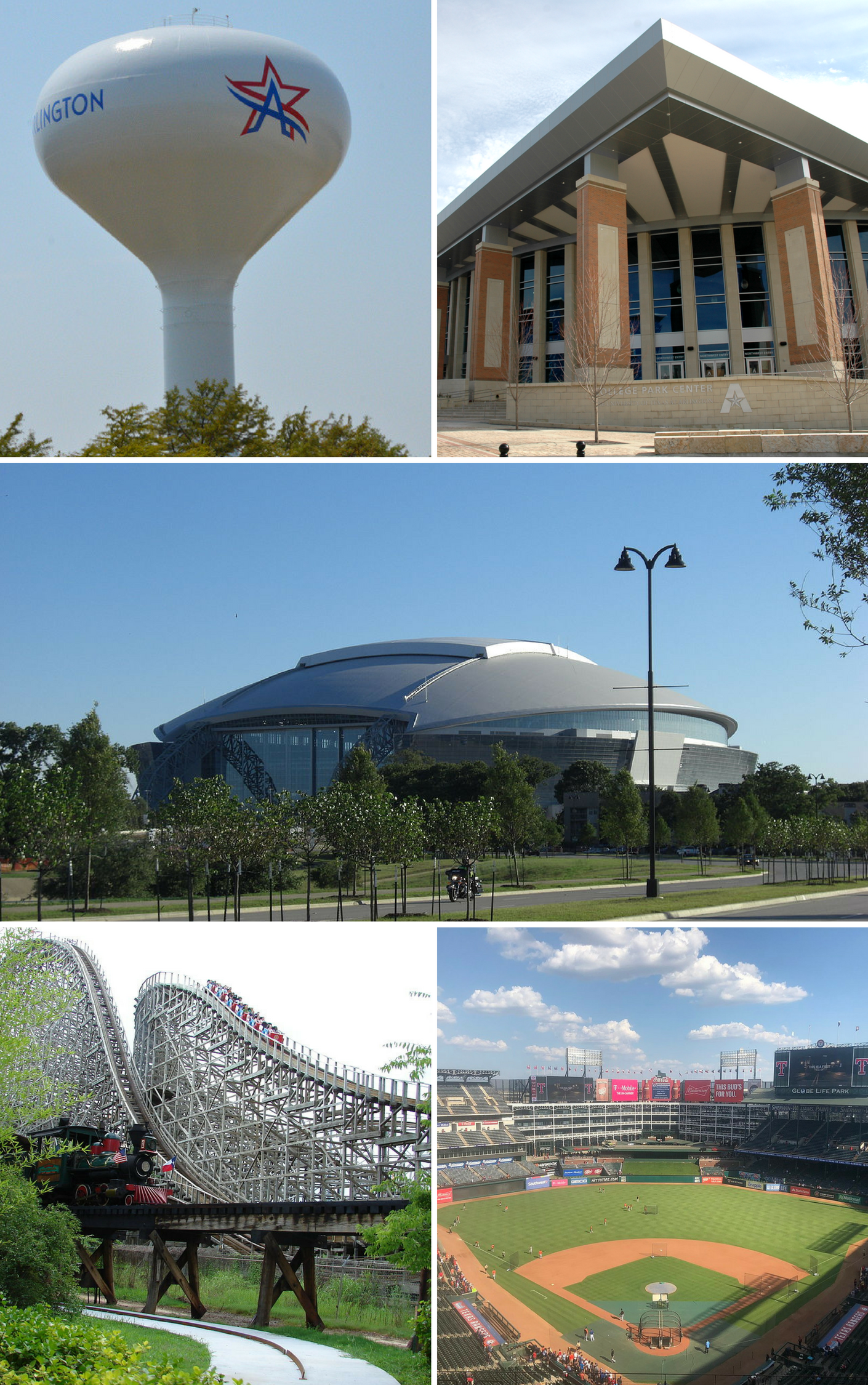 This is a collage for articles pertaining to Arlington, Texas. The sources of these files come from: and